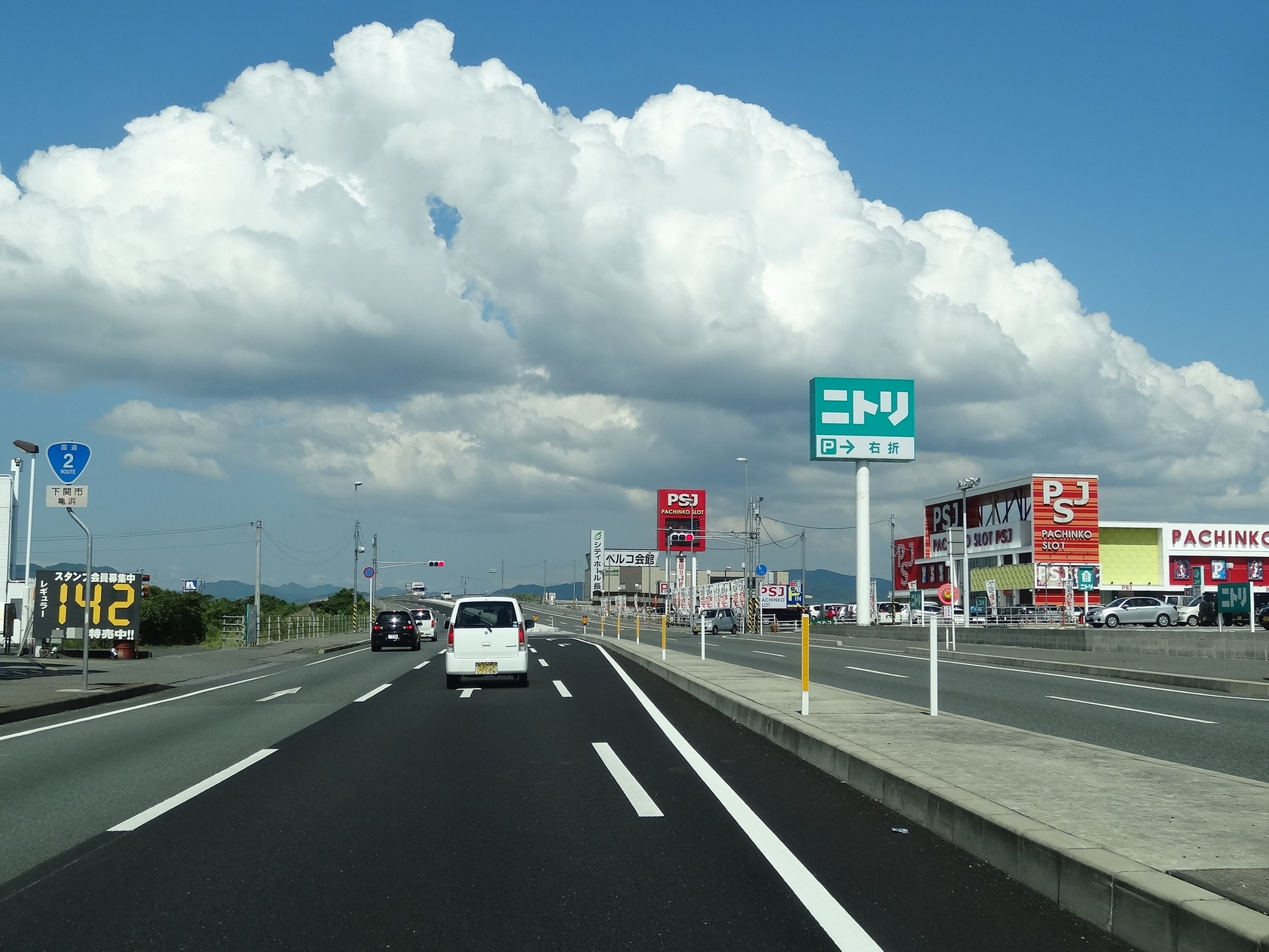 National Route 2 Ozuki Bypass - Shimonoseki City, Yamaguchi Prefecture, Japan.